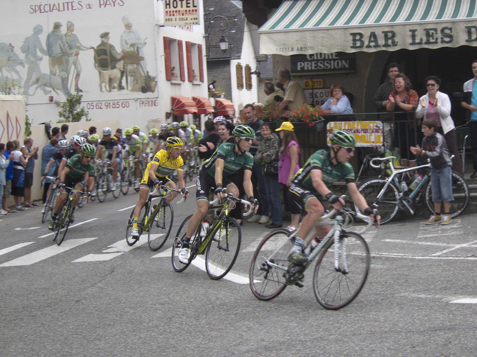 The front of the peloton during stage 12 of the 2011 Tour de France at the village Sainte Marie de Campan (commune of Campan) before the climb to the Col du Tourmalet. Thomas Voeckler is wearing the yellow jersey.